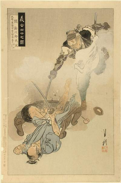 Ronin are masterless samurai. Chushingura is the true story of 47 samurai who became masterless in 1701, after their lord had been forced to commit ritual suicide (seppuku) for assaulting a court official who had insulted him. They avenged him by killing the court official after patiently planning for over a year. They were themselves then forced to commit seppuku.